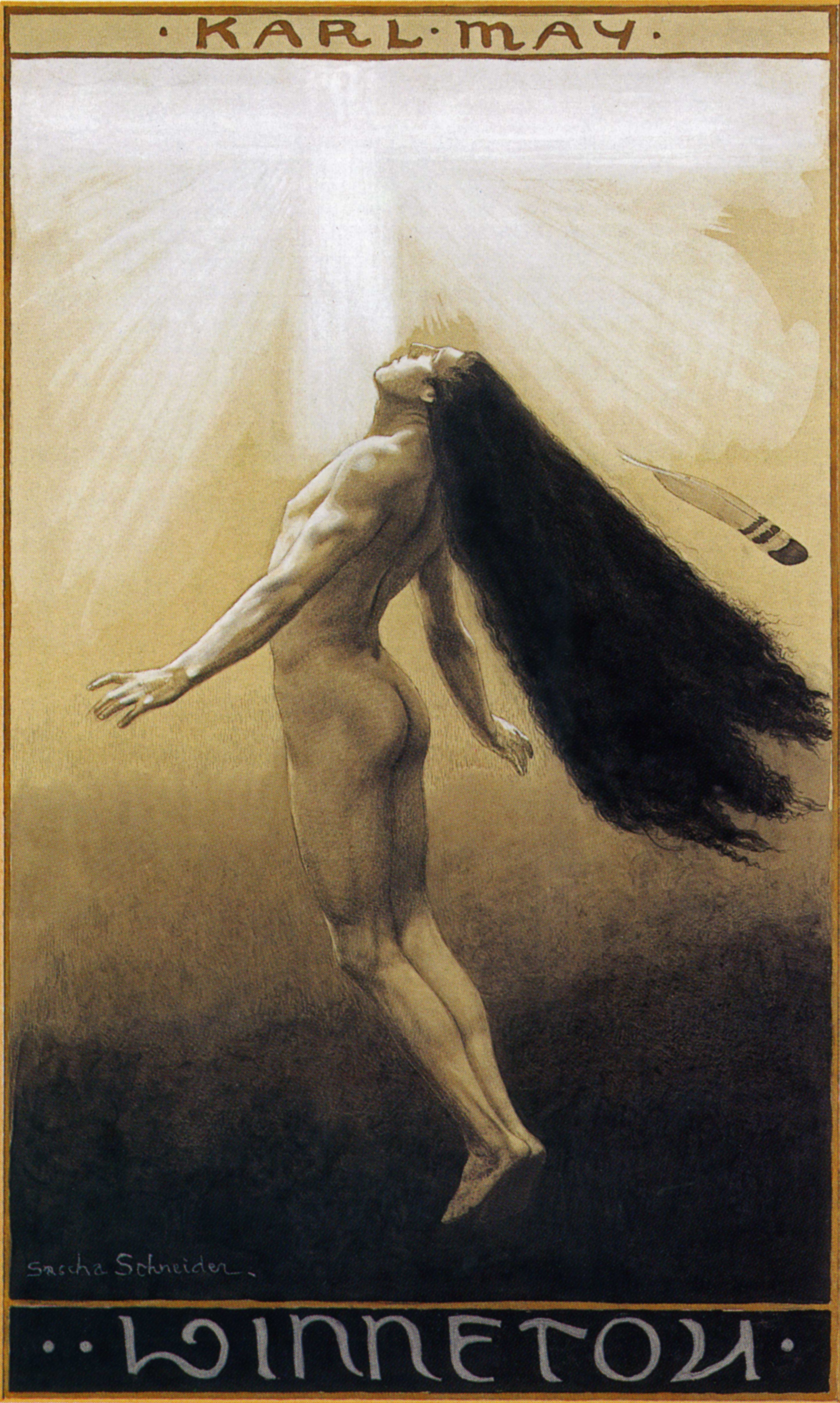 Sascha Schneider, Winnetous Himmelfahrt, 1904 Book cover of Winnetou III by Karl May